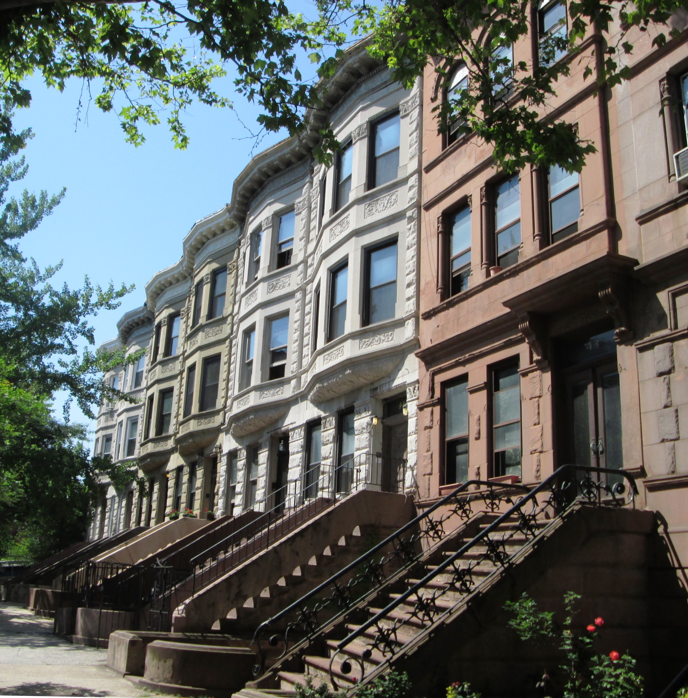 The Jumel Terrace Historic District is a small New York City and national historic district located in the Washington Heights neighborhood of Manhattan, New York City. It consists of 50 residential row houses built between 1890 and 1902, and one apartment building constructed in 1909, as the heirs of Eliza Jumel sold off the land of the former Roger Morris estate. The buildings are primarily wood or brick row houses in the Queen Anne, Romanesque and Neo-Renaissance styles. Also located in the district, but separately landmarked, is the Morris-Jumel Mansion. 439-451 West 162nd Street are on the north side of the street, and were built around the turn of the century.